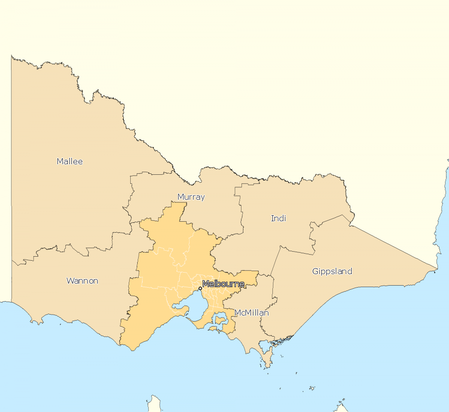 Incorporates or developed using Administrative Boundaries ©PSMA Australia Limited licensed by the Commonwealth of Australia under Creative Commons Attribution 4.0 International licence (CC BY 4.0). Derived from State and Territory Boundaries from the Australian Bureau of Statistics under Creative Commons Attribution 2.5 Australia license (CC BY 2.5 AU)